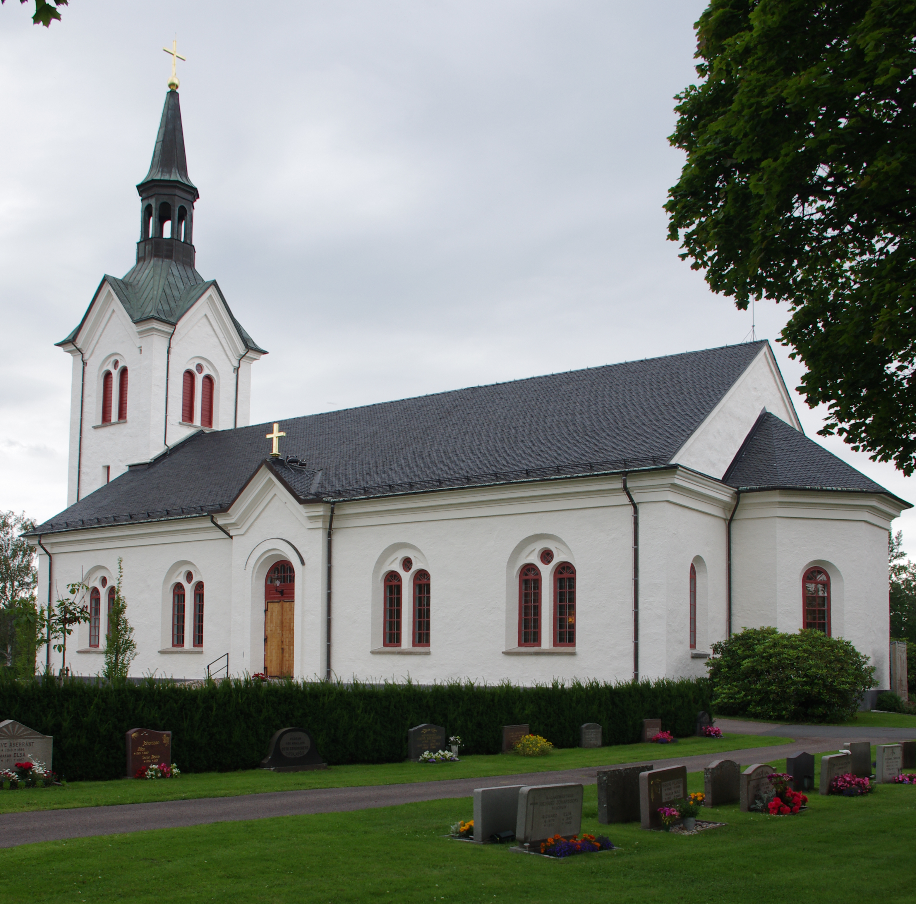 Bankeryds kyrka (swedish: church of Bankeryd), Småland, Sweden.